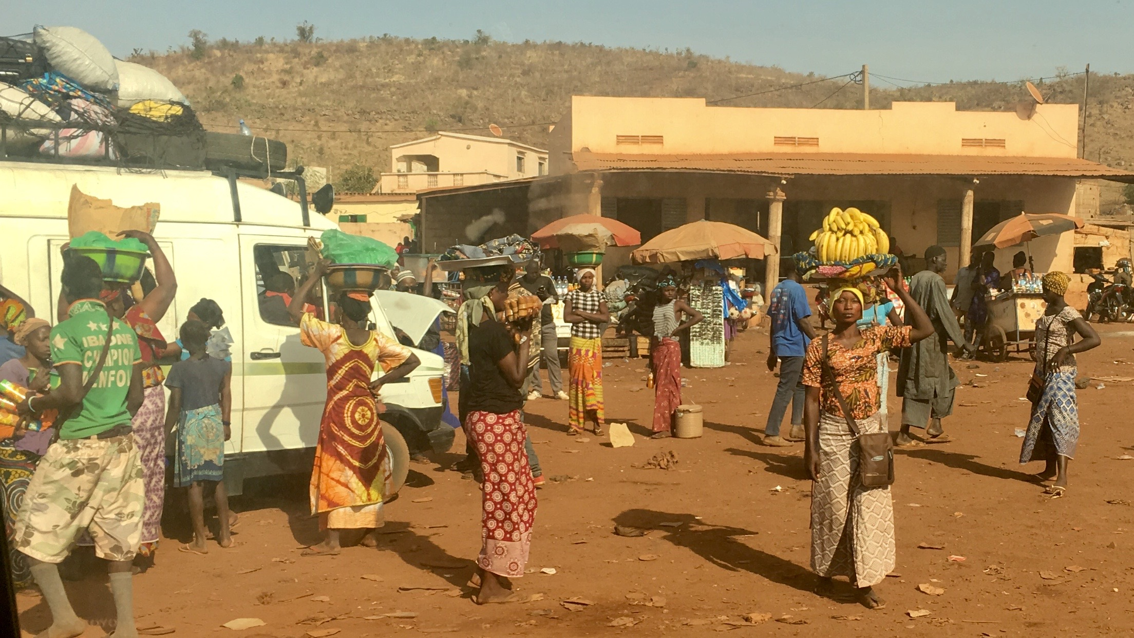 This is an image with the theme "Africa on the Move or Transport" from: Mali